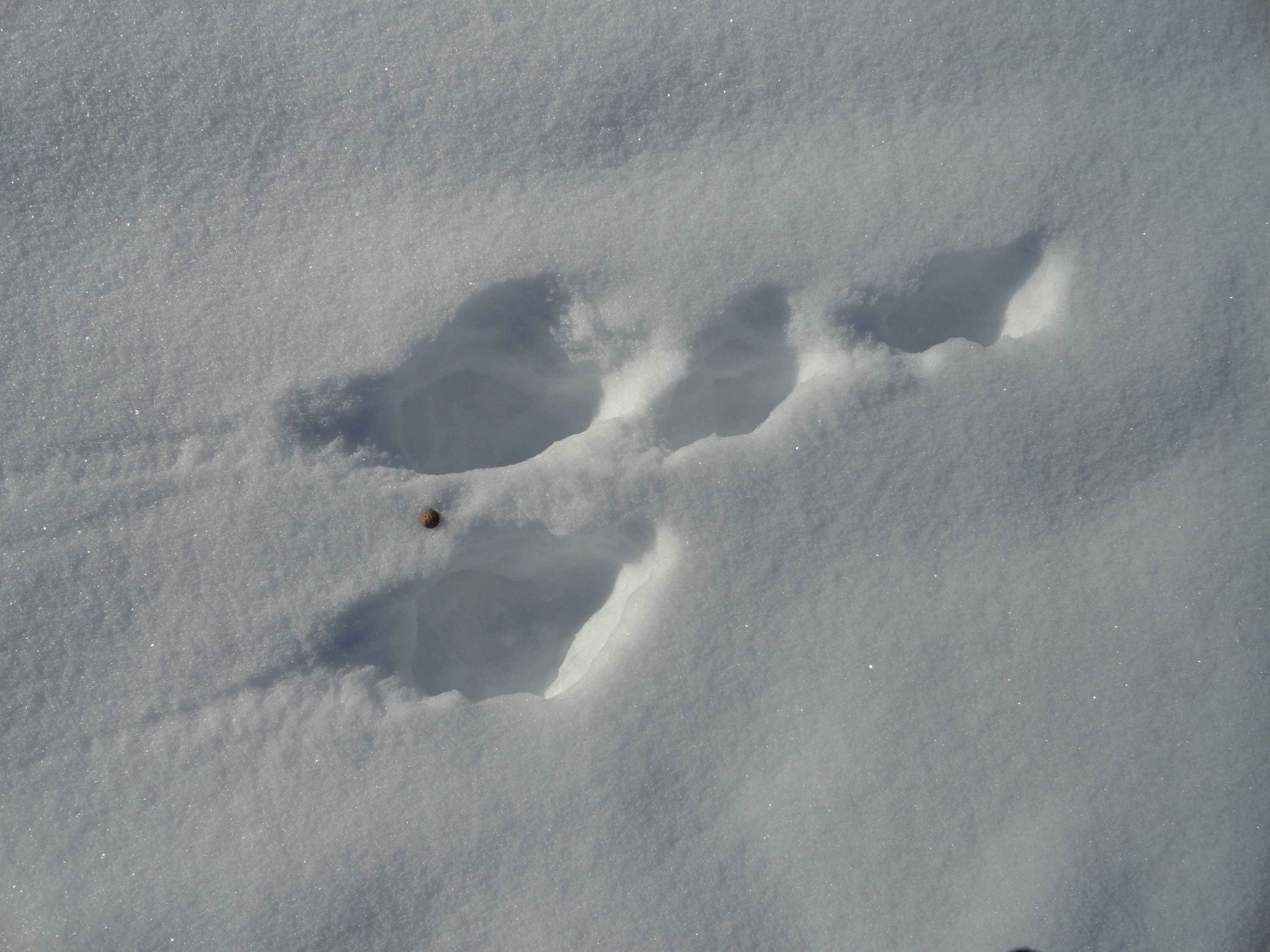 Arctic hare (Lepus arcticus) tracks